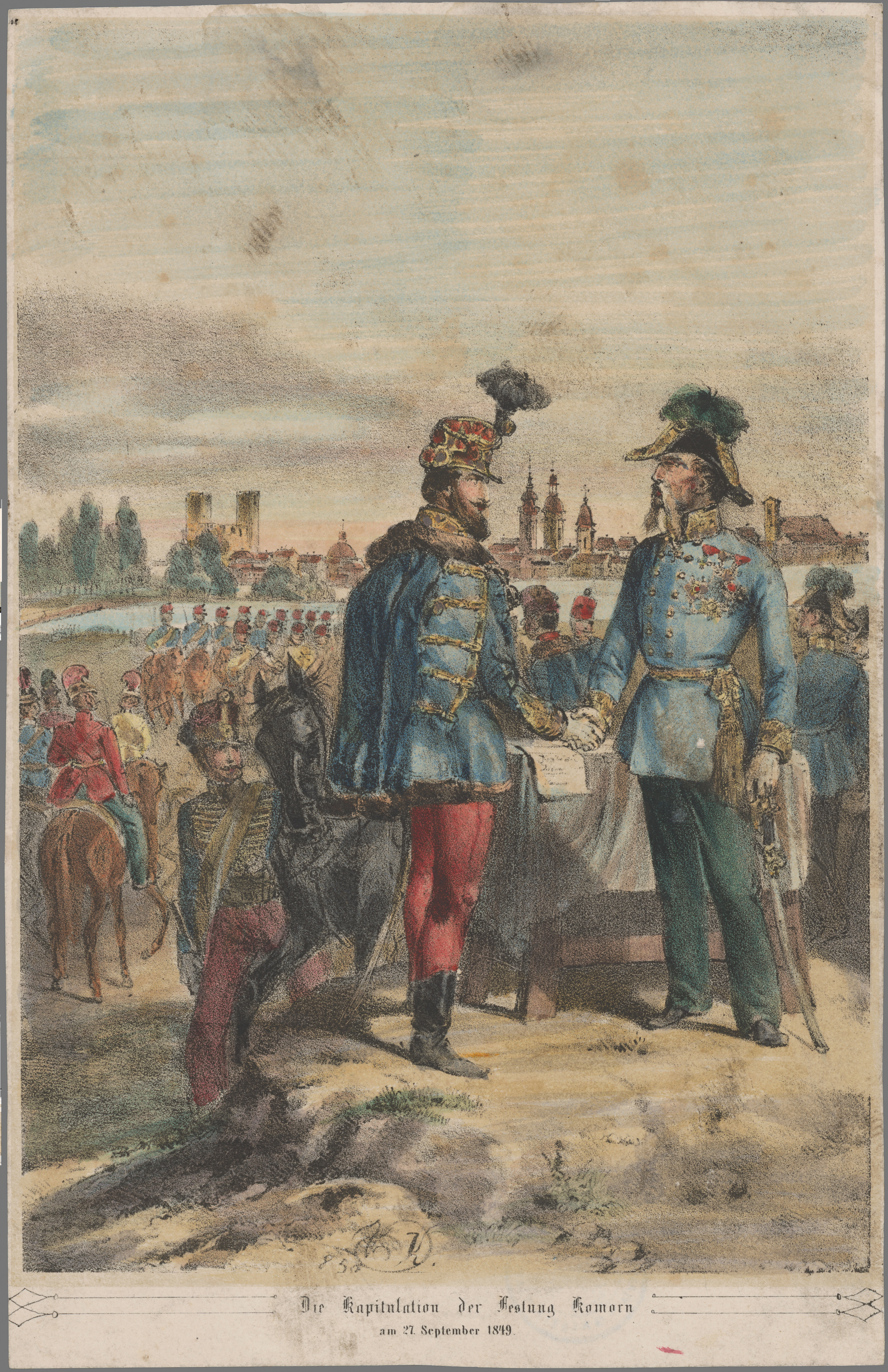 The Hungarian General György Klapka surrendering the fortress of Komárom to the Austrian Field Marshall Jacob Julius von Haynau in 2 October 1849, thus ending the Hungarian War of Independence of 1848-1849.